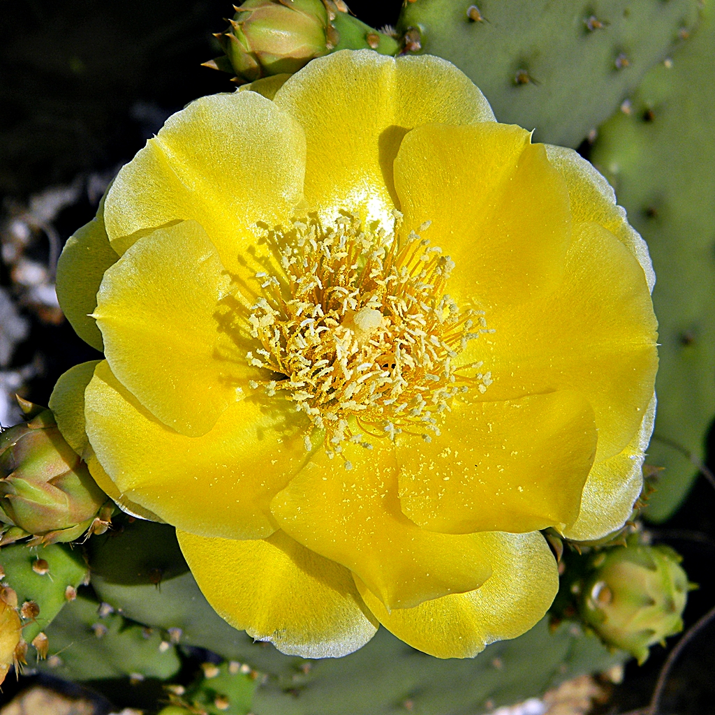 Opuntia humifusa blooming at Juno Dunes Natural Area, Palm Beach County, Florida. A favorite food of gopher tortoise, deer, raccoon and several other animals! The blossoms are very delicate.